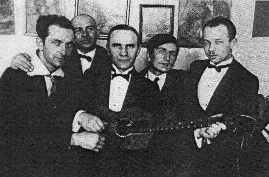 Nil Khasevych and his friends who also were artists in Warszaw academy (1930s)